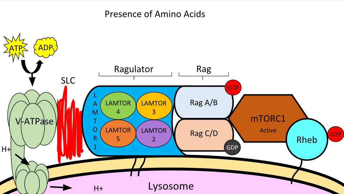 The rag-ragulator complex, which is found on the surface of lysosomes (an organelle that helps break down waste materials in cells), in its active form in the presence of amino acids.